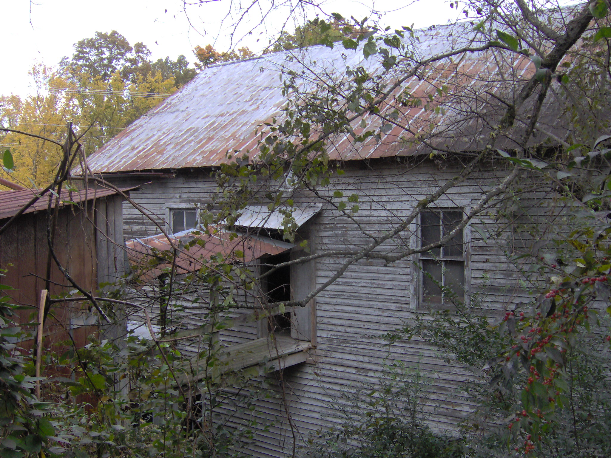 Rear of the Clover Hill Mill in Maryville, Tennessee, USA.